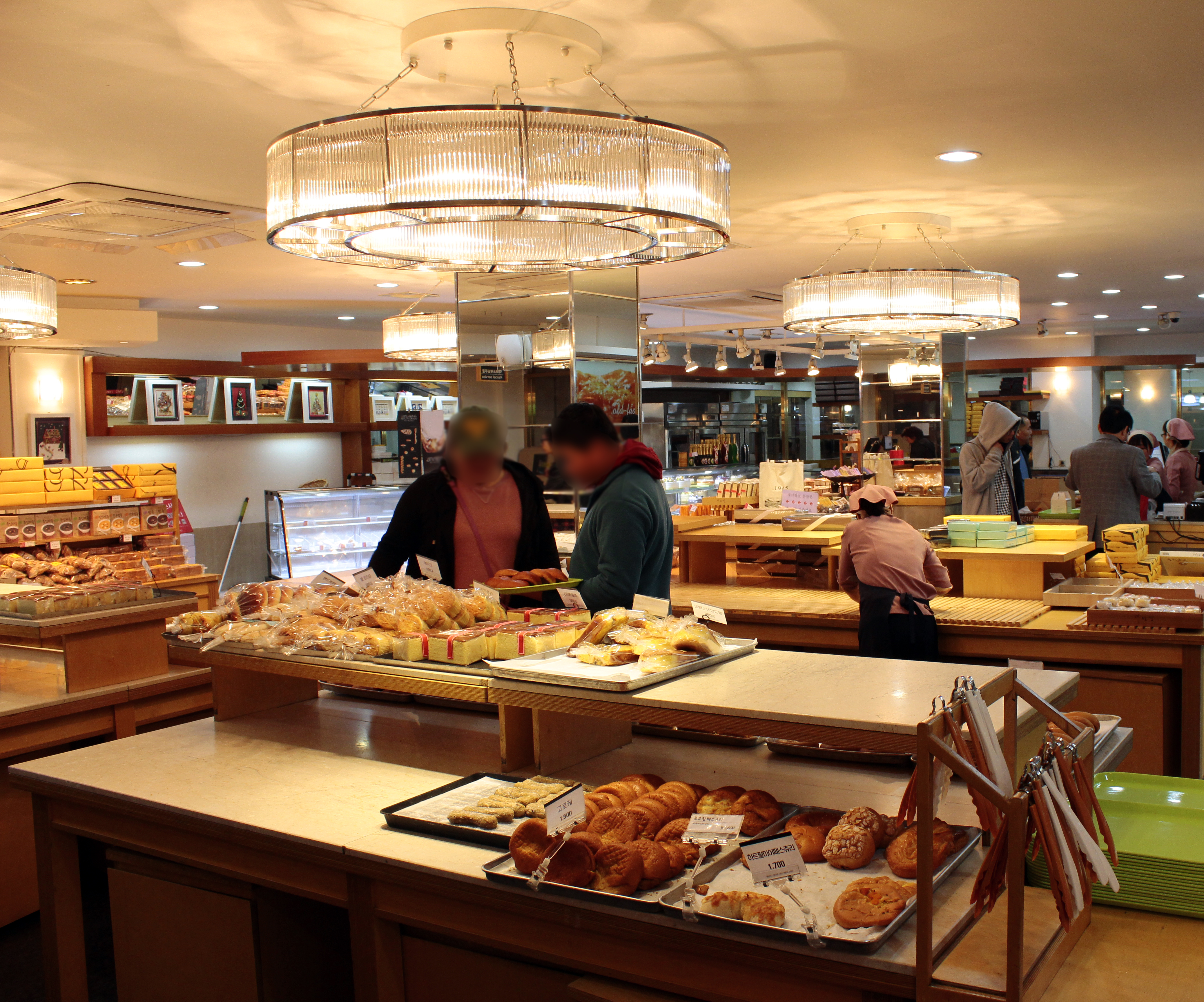 Inside the Isungdang